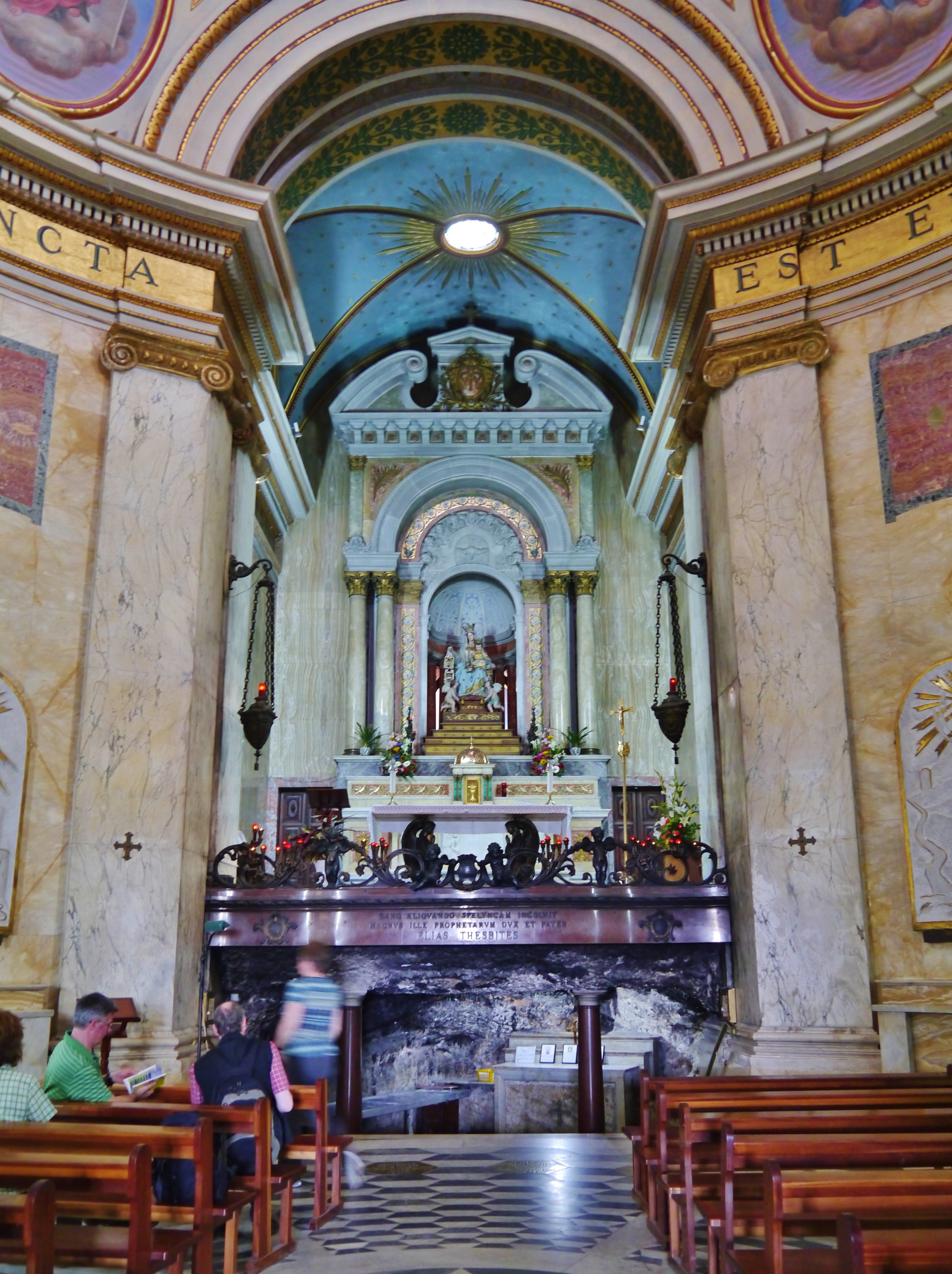 High Altar of Stella Maria Basilica, Haifa, Israel